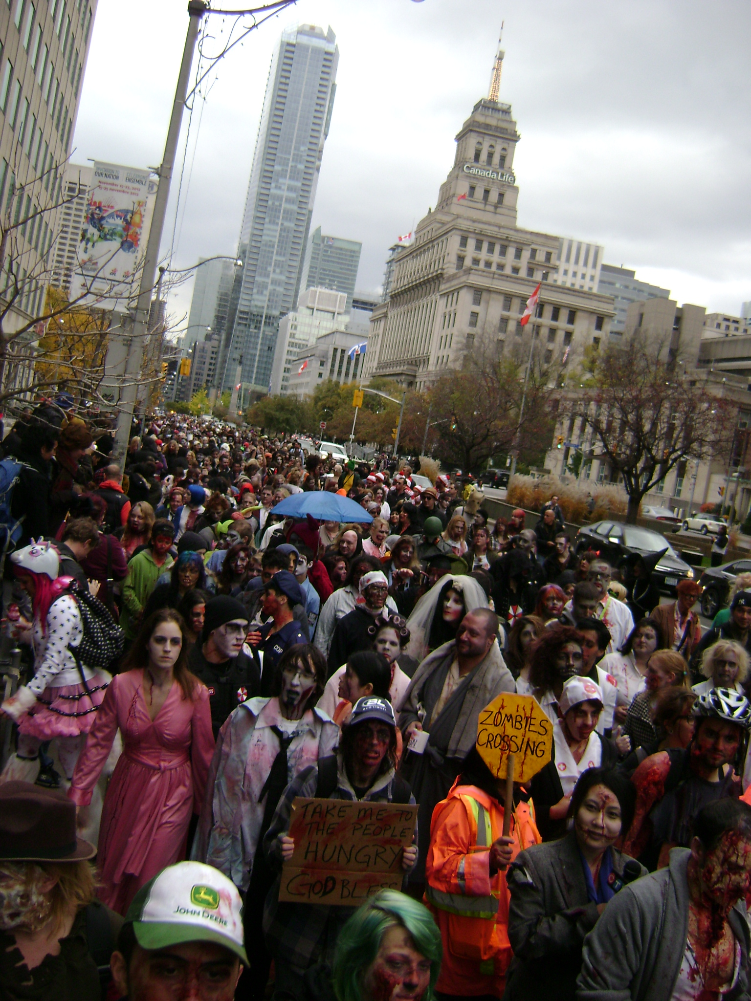 Toronto Zombie Walk in University Avenue, Toronto, Ontario, Canada.